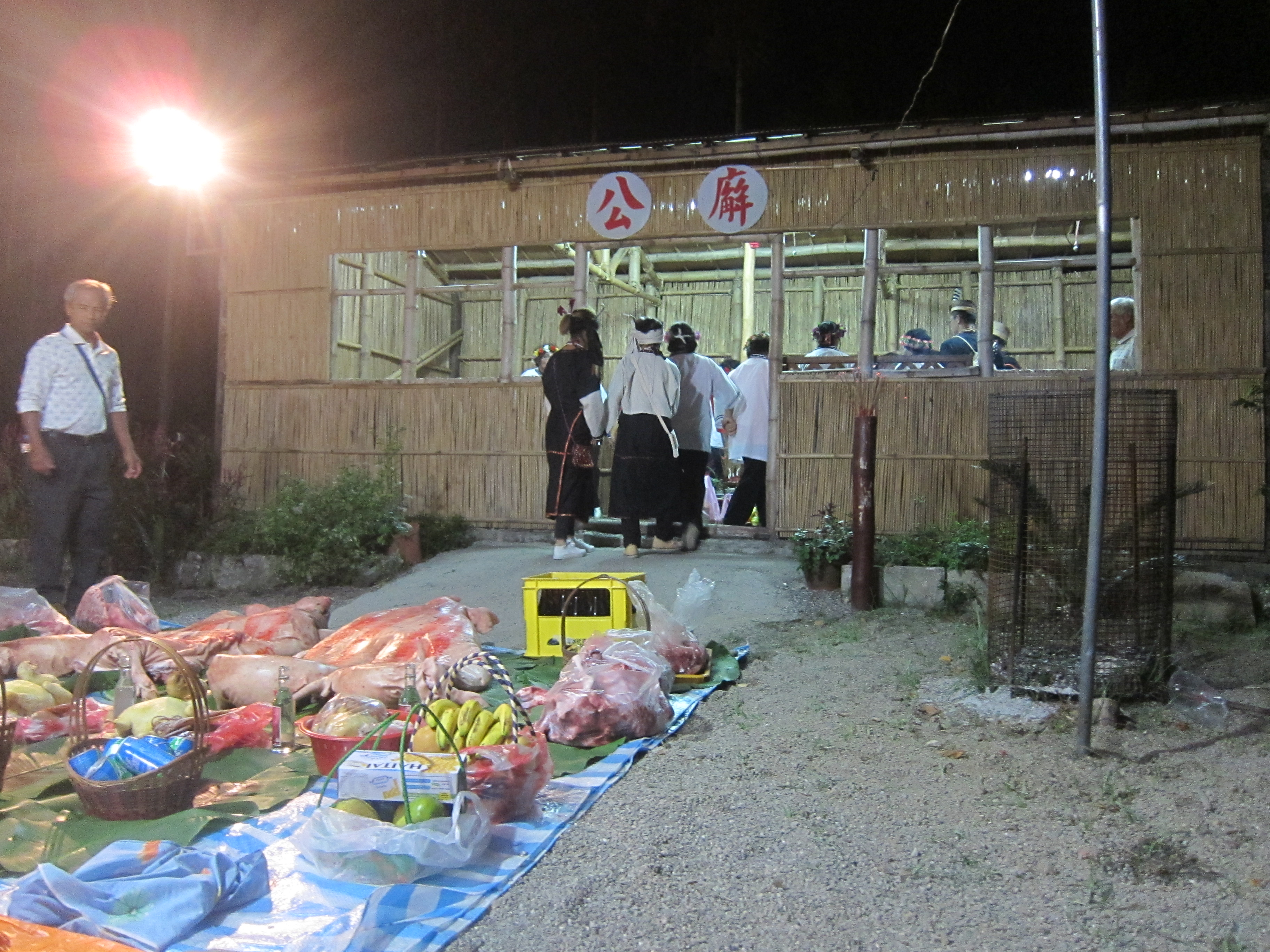 Taivoan shrine "Kuma" in Dazhuang.